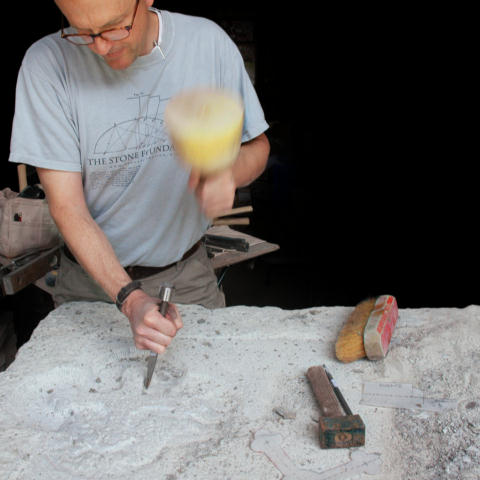 Richard Rhodes carving stone using traditional mason's tools.